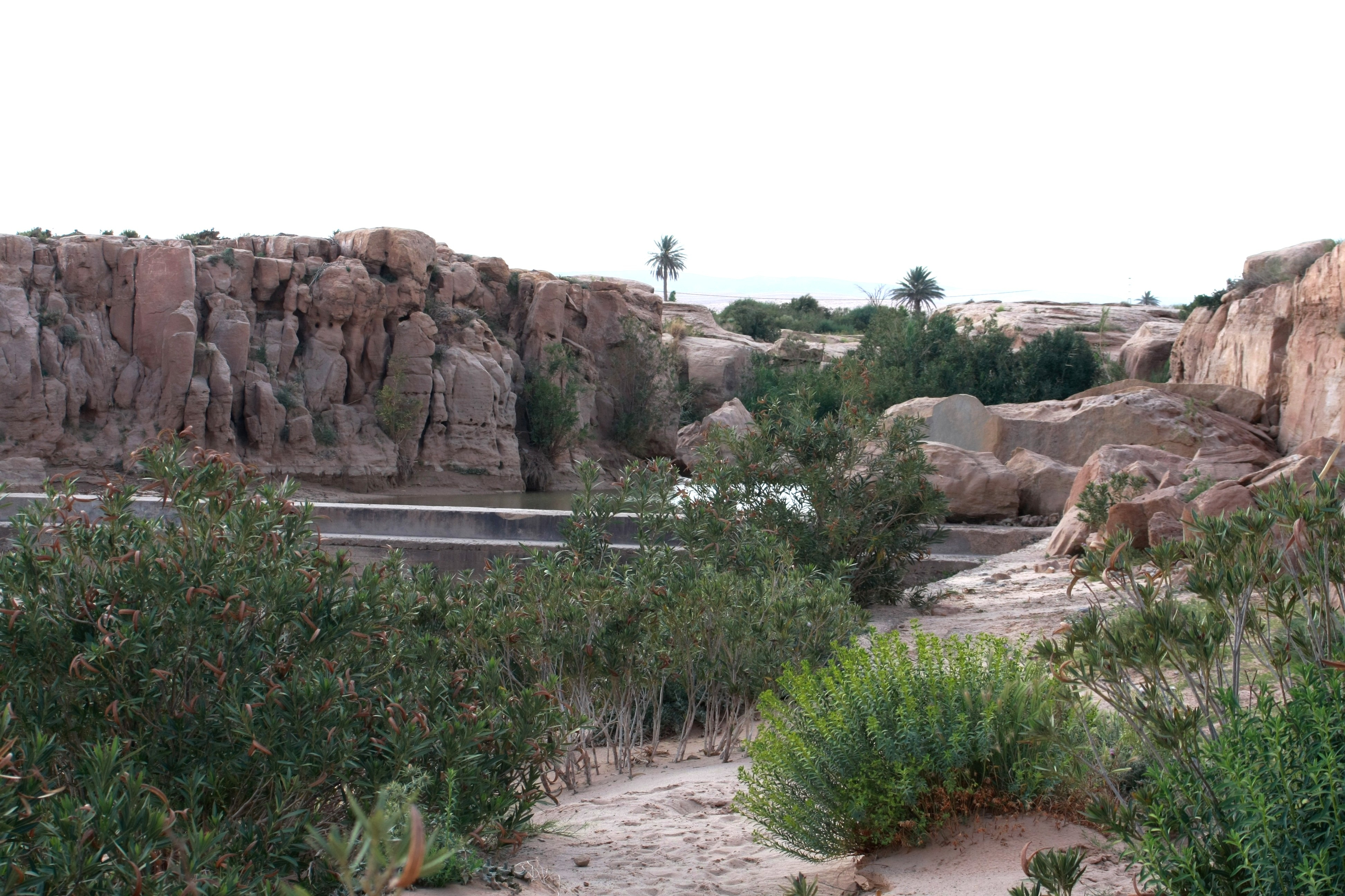 A picture representing Oued Bakhdache, the southern entrance to the city of Sidi Makhlouf, in Laghouat province - Algeria.